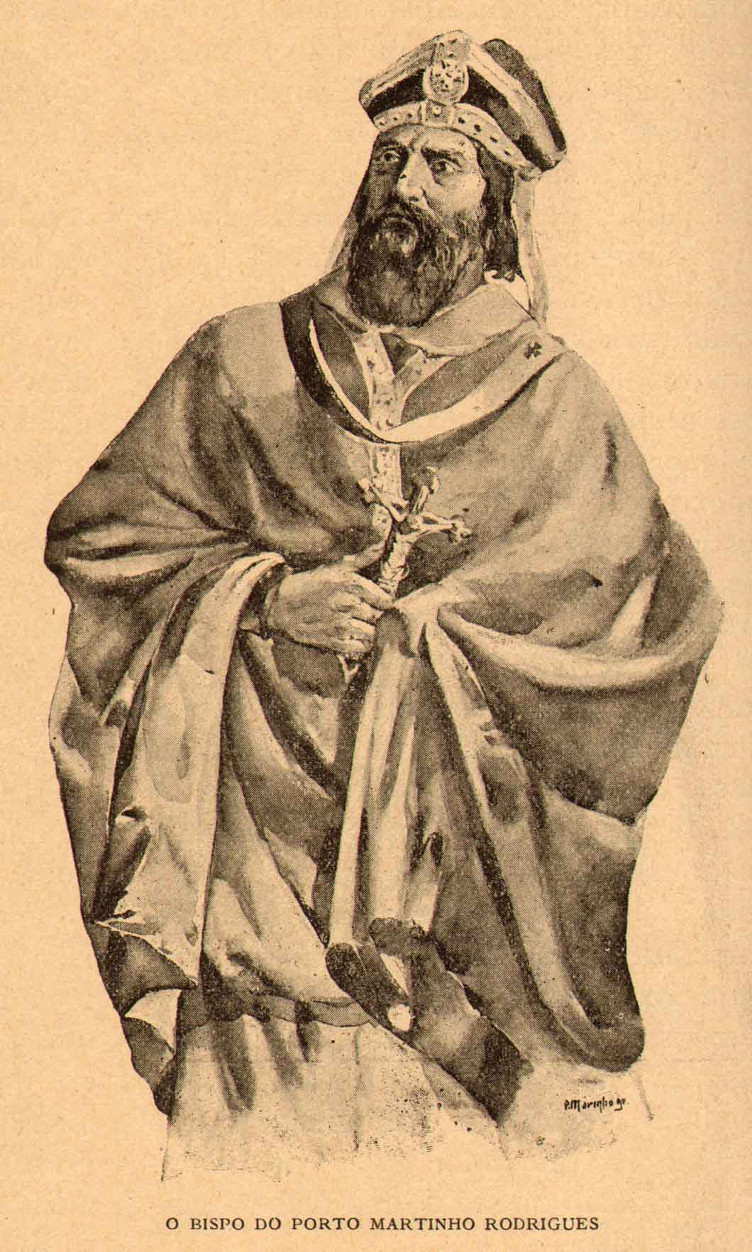 Illustration by Alfredo Roque Gameiro in the book História de Portugal, popular e ilustrada, by Manuel Pinheiro Chagas